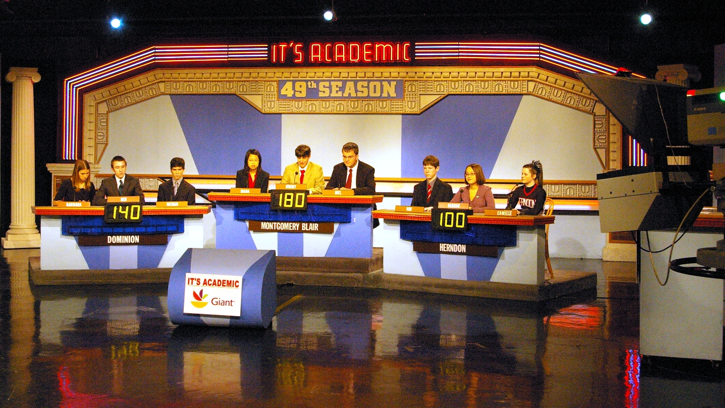 It's Academic being taped on December 12, 2009 in historic Studio A at WRC-TV (NBC, Washington DC). The three teams appear to be Dominion High School (Sterling, Loudoun County, Virginia); Montgomery Blair High School (Silver Spring, Montgomery County, Maryland); and Herndon High School (Herndon, Fairfax County, Virginia).